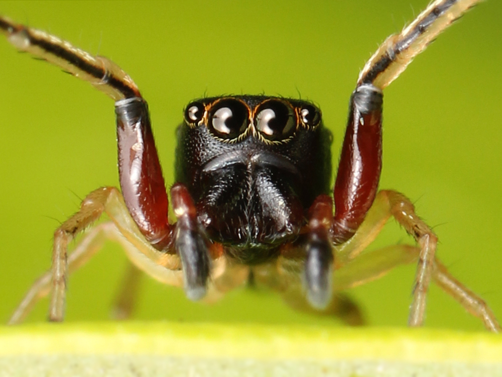 Mature male Zygoaballus rufipes jumping spider from South Carolina